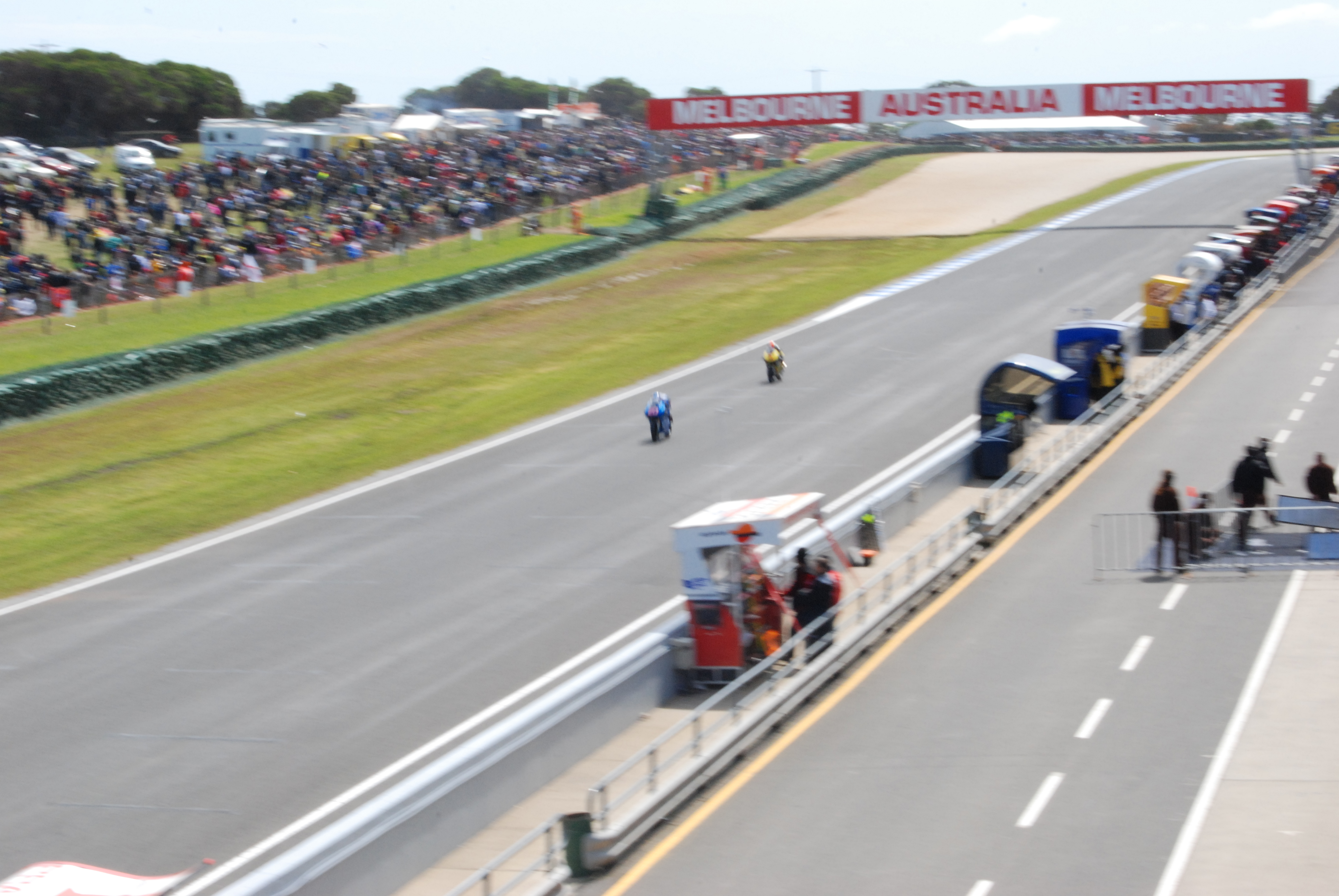 Main straight, Phillip Island.